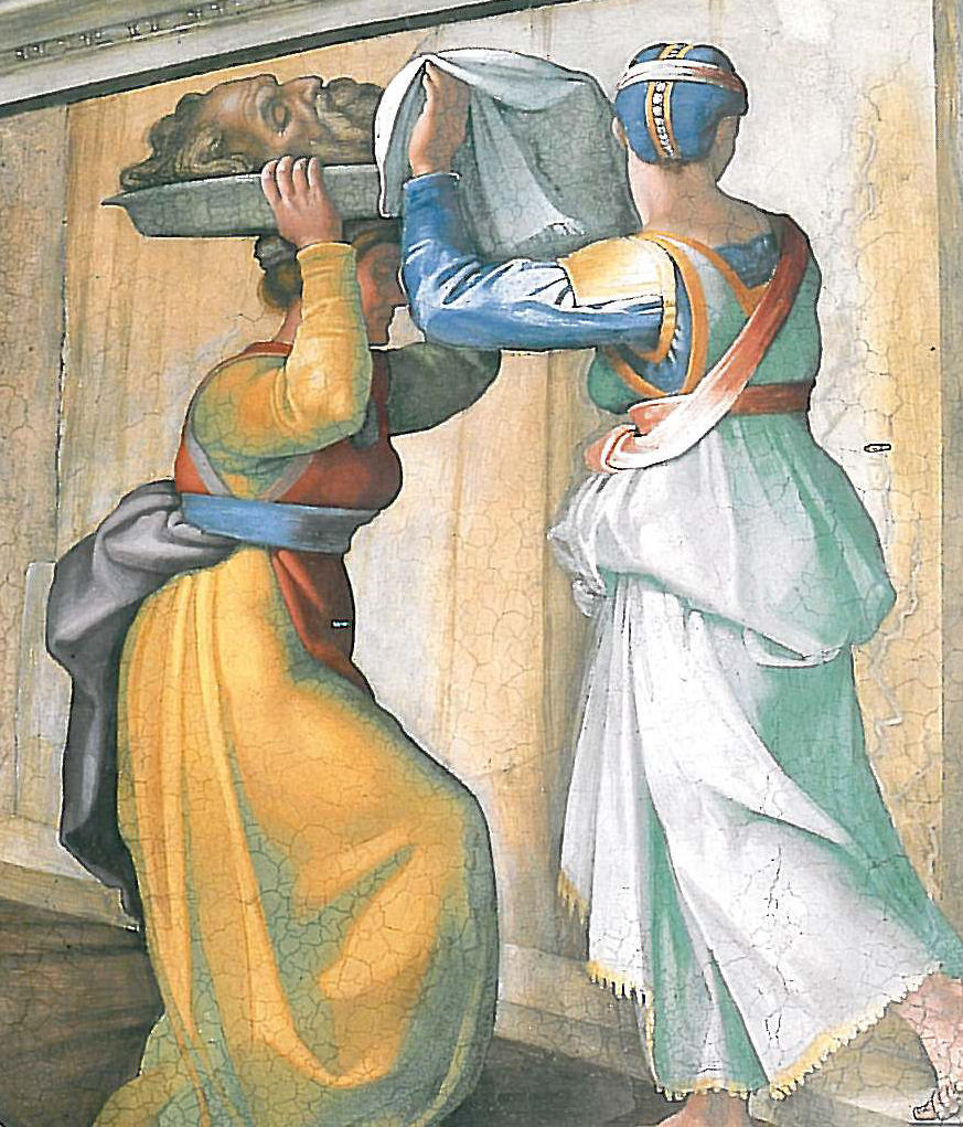 Judith and Holofernes